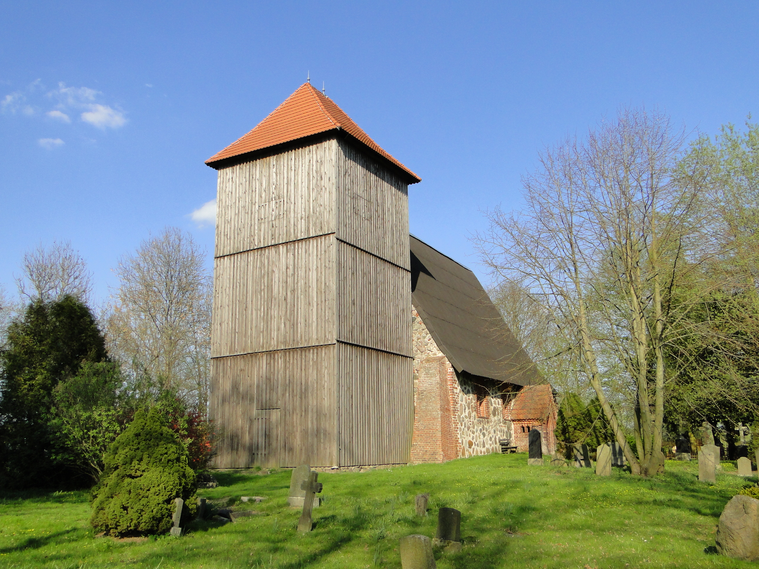 Church in Ruest, district Parchim, Mecklenburg-Vorpommern, Germany